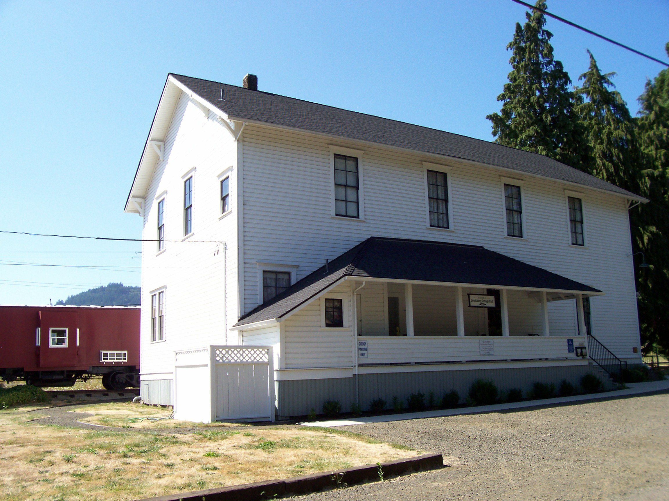 Lewisburg Hall and Warehouse Company Building in Lewisburg. (Just outside of Corvallis). Listed on the National Register of Historic Places.